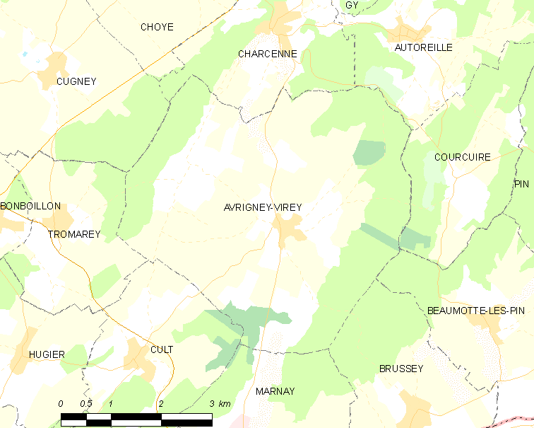 Map of French municipality